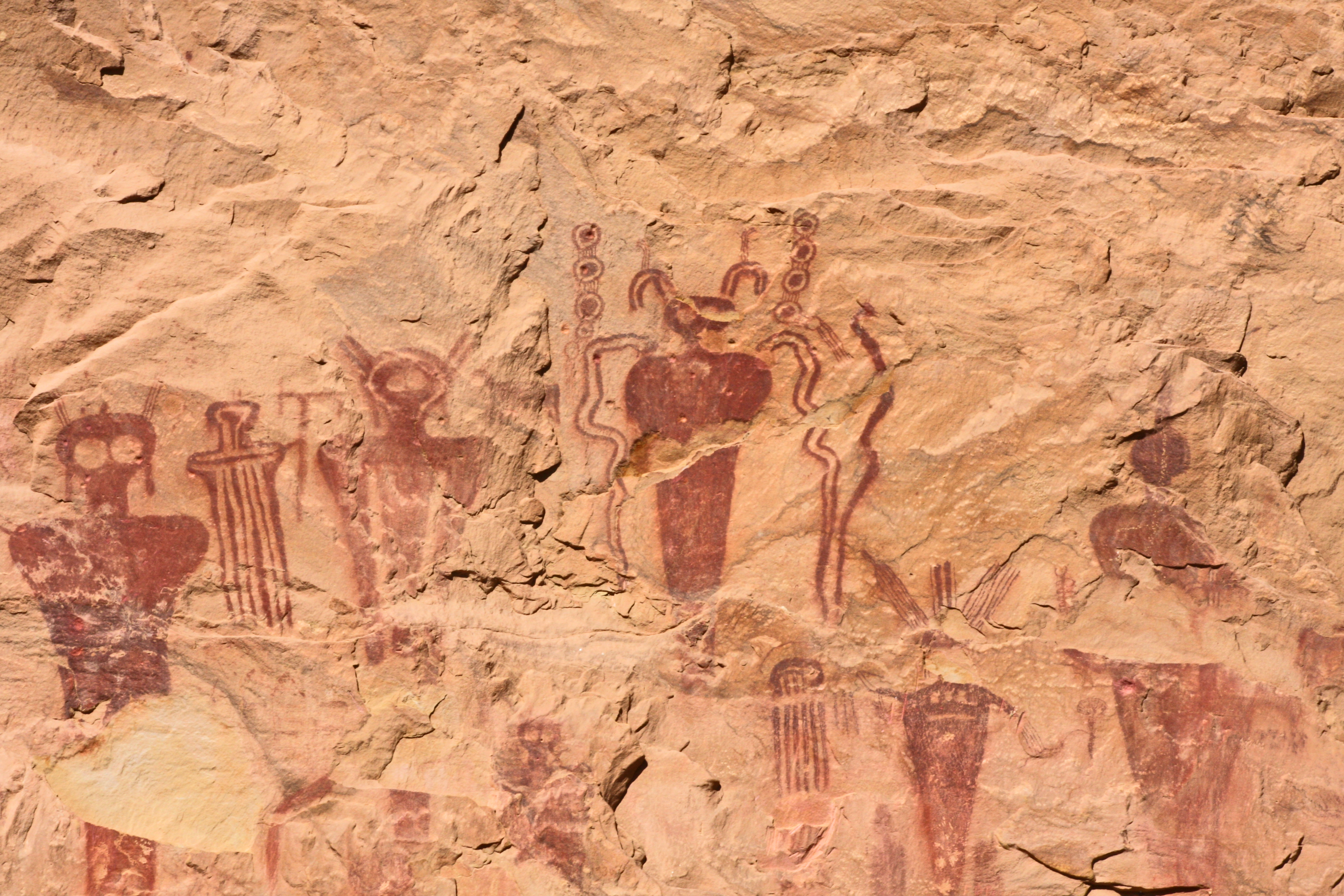 These elaborate and well preserved Barrier Canyon style petroglyphs are located in Sego canyon in the Utah desert. They are among the best preserved pre-Columbian petroglyphs in the United States. This group is from the early Fremont Period, around 2,500 B.C.